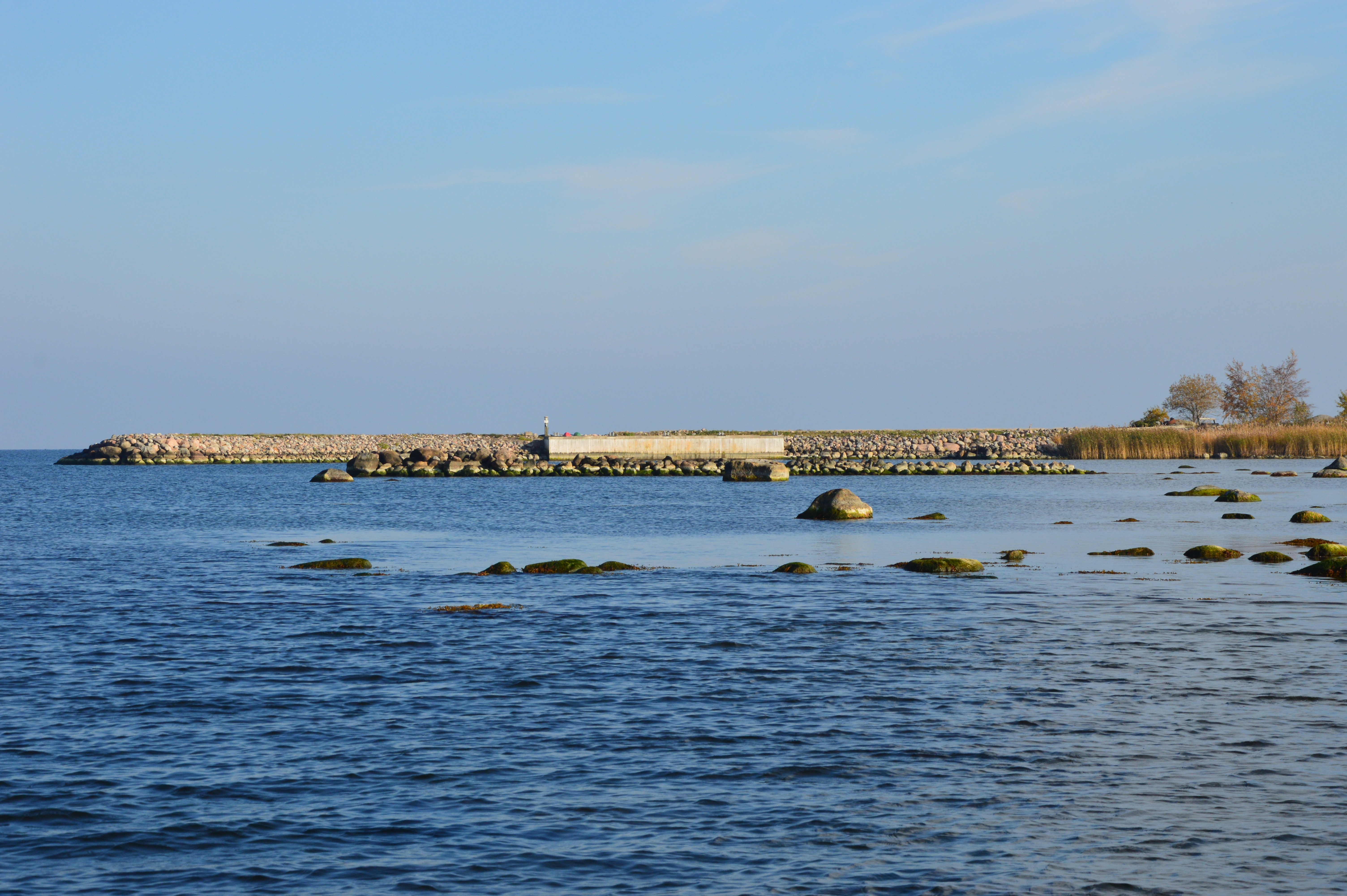 Nurme harbour, Kräsuli island, Estonia.